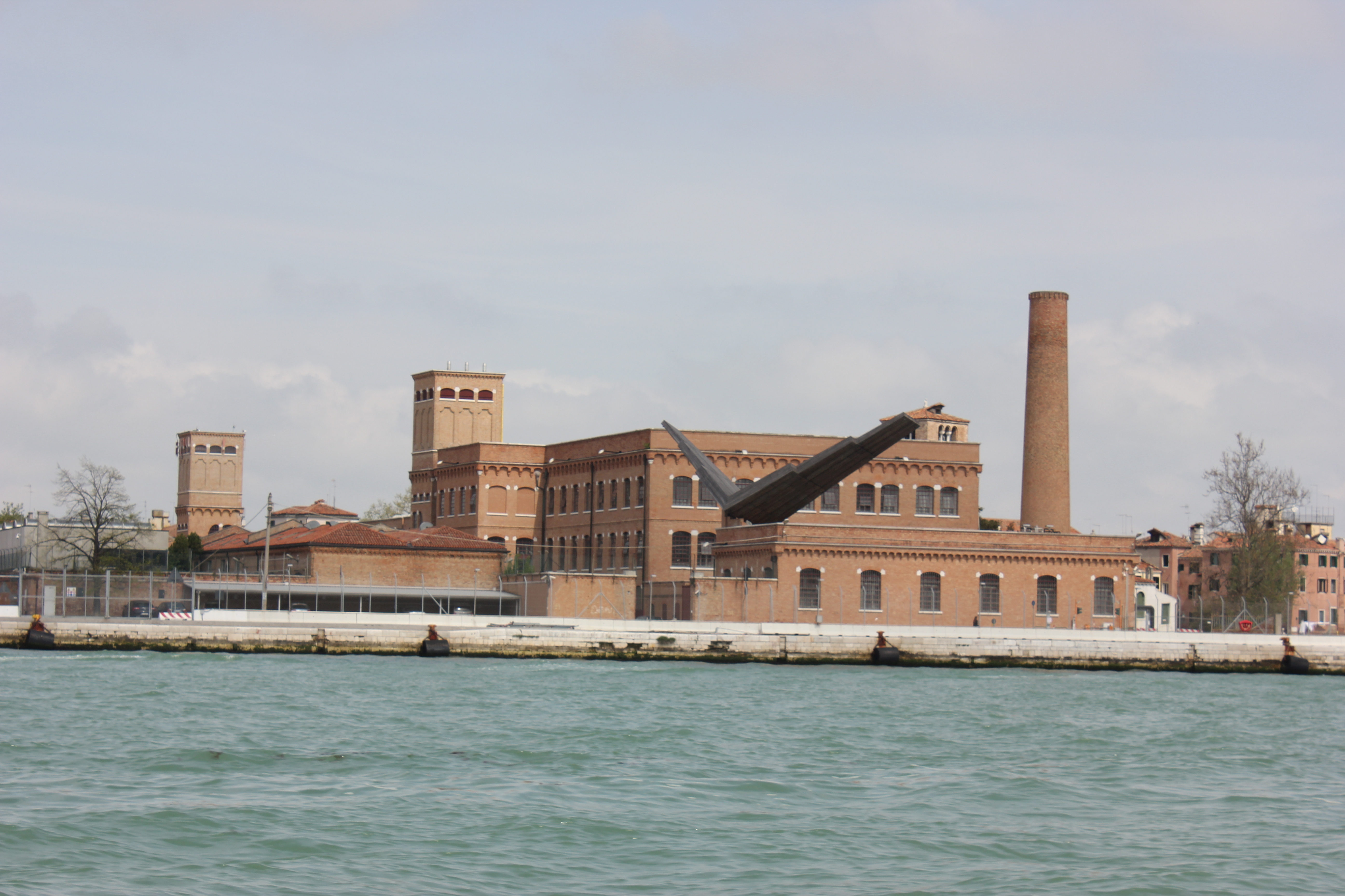 Venice - IUAV University of Architecture